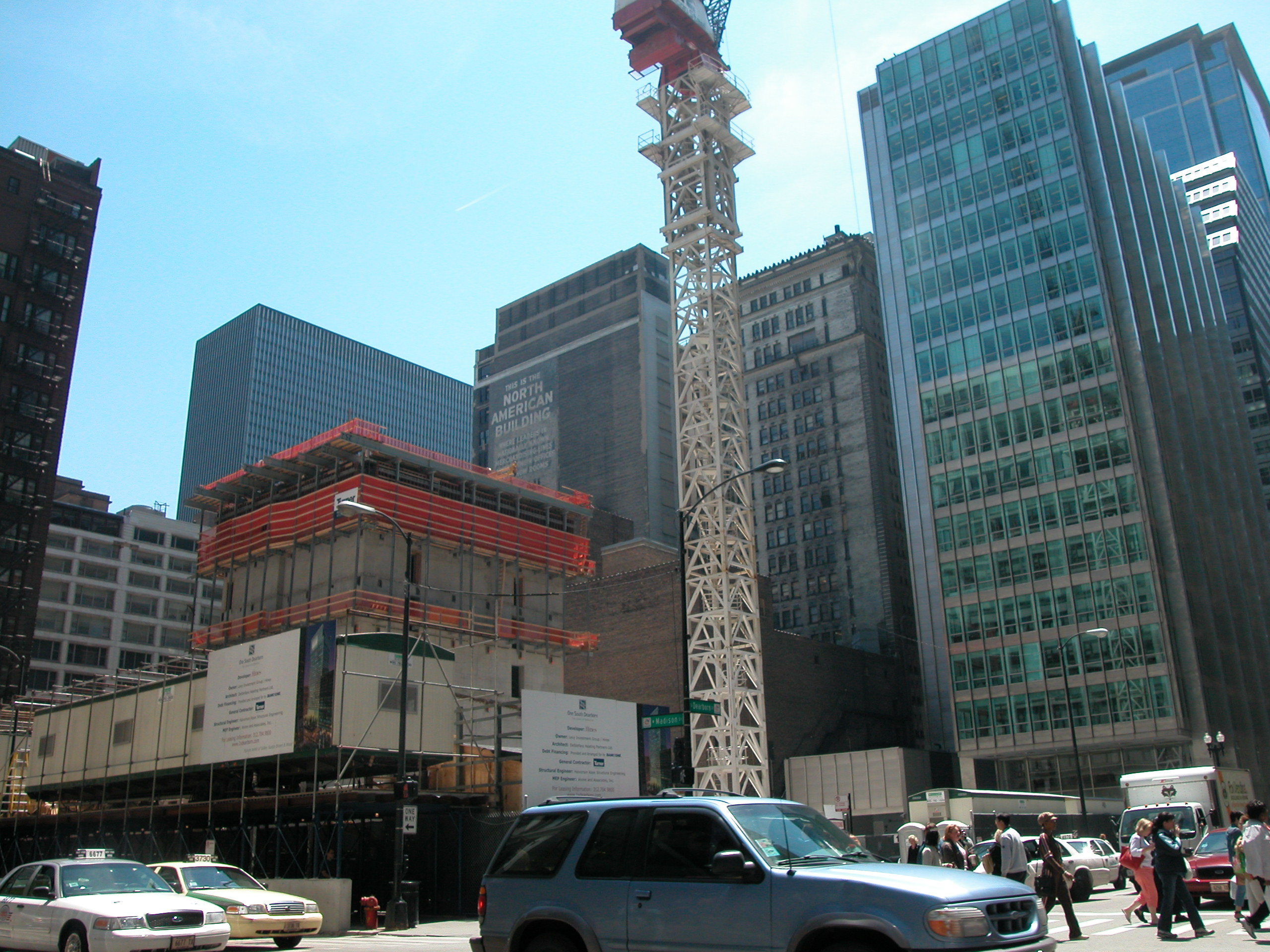 20040604 09 Dearborn St. @ Madison St.